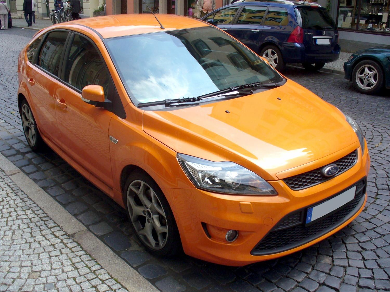 Ford Focus ST